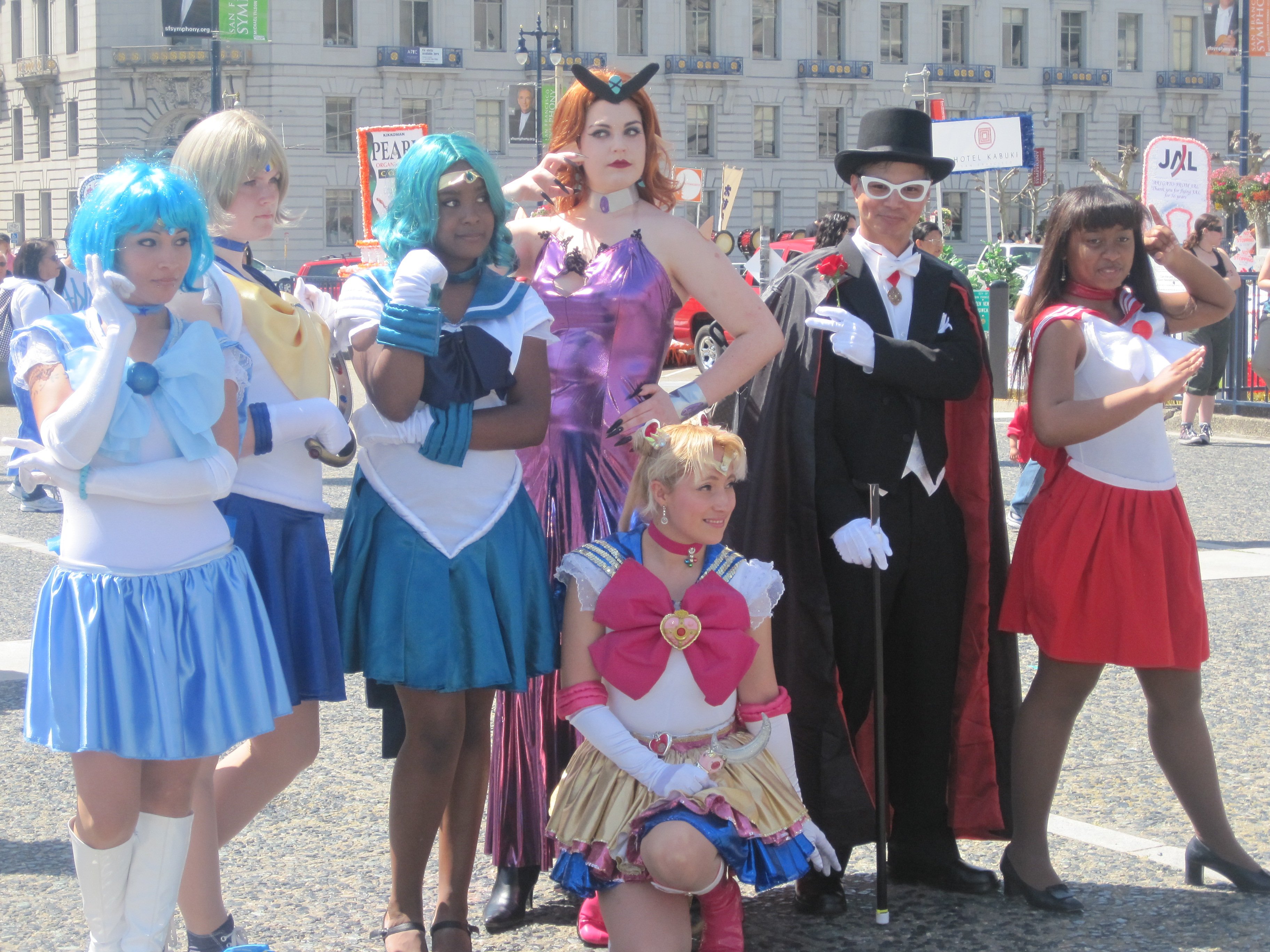 Cosplayers portraying various characters from Sailor Moon at the 2010 Northern California Cherry Blossom Festival.